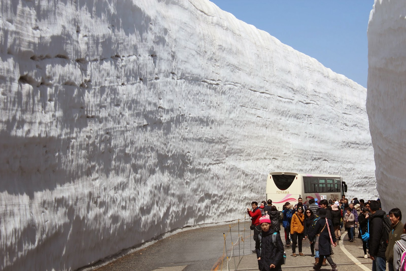 Yuki-no-Otani snow wall on the Tateyama Kurobe Alpine Route in Tateyama Town, Toyama Prefecture, Japan